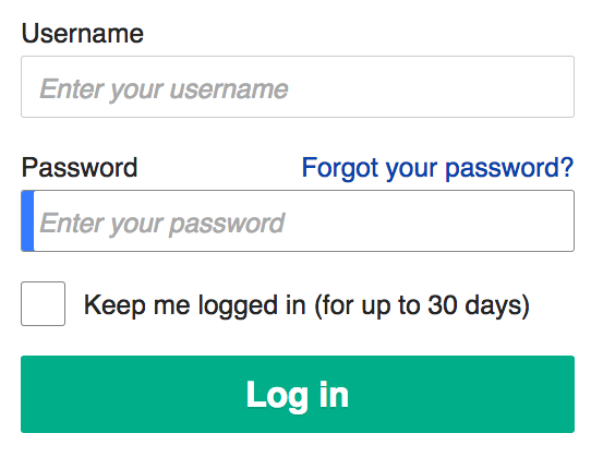 The sign in form from Mediawiki 1.25wmf4, with the password field selected